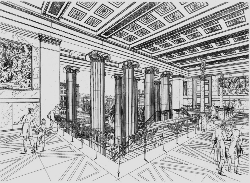 Altes Museum Berlin. View to the staircase. Drawing by the architect of the museum, Karl Friedrich Schinkel.